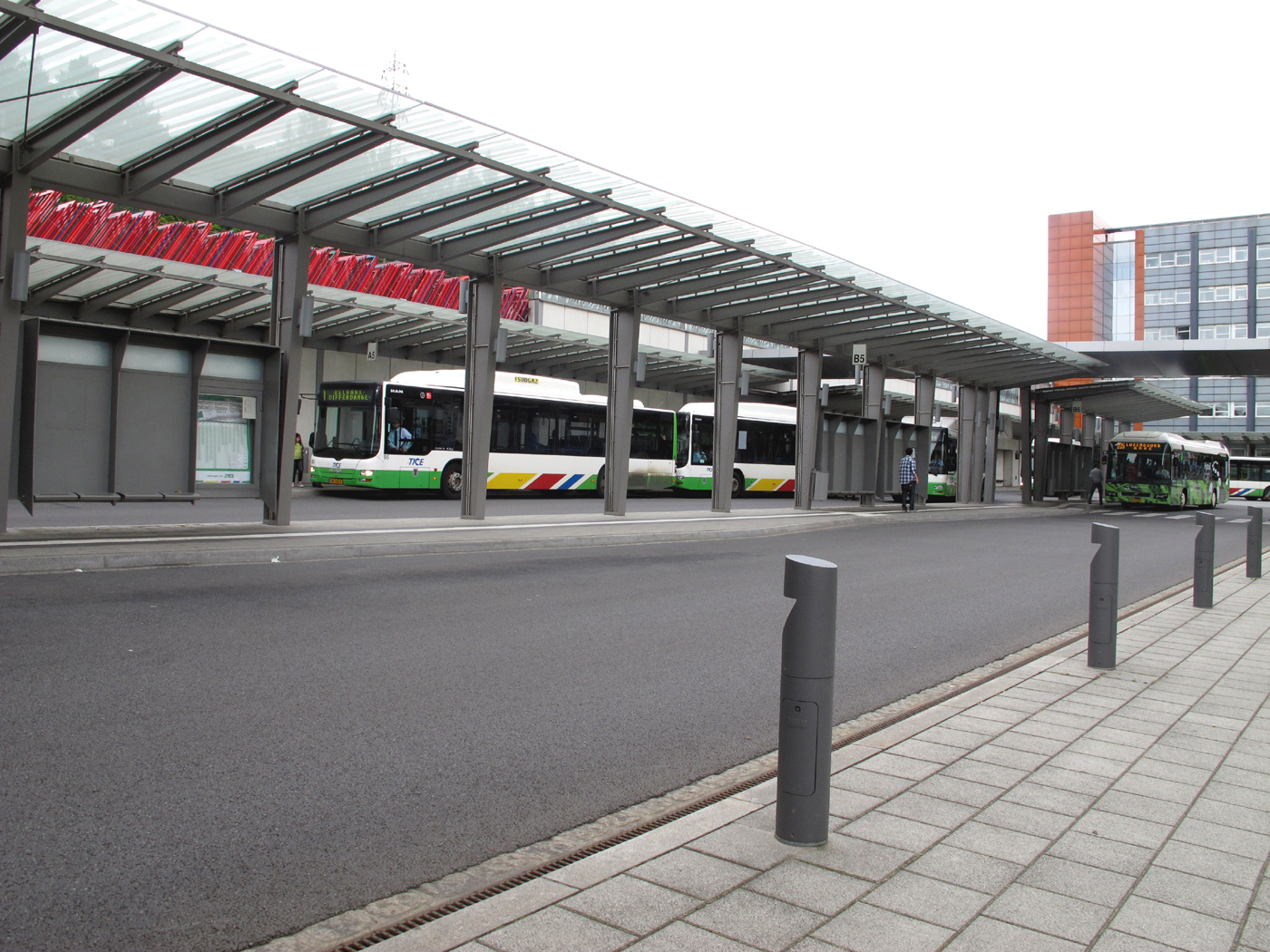 Bus station in Esch-Alzette, Luxembourg